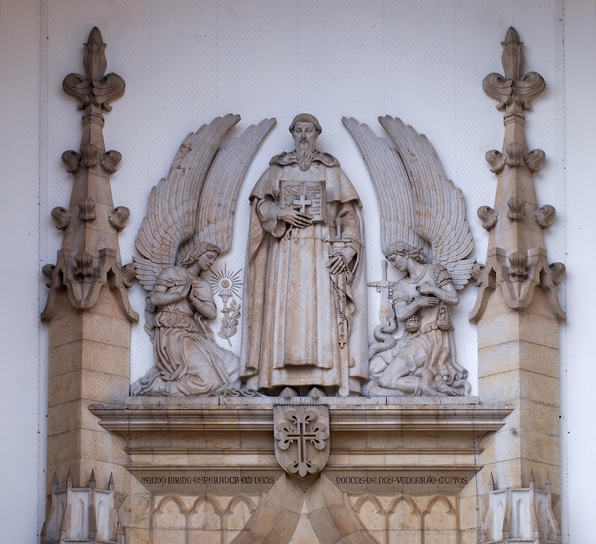 Church of the Santo Condestável (Saint Constable), D. Nuno Álvares Pereira. Lisboa, Portugal. Below it is written: "Having a firm hope in God, few of us will prevail over many", the words of D. Nuno before the battle of Aljubarrota (1385) between the Portuguese and the Castillian.